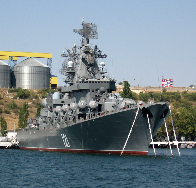 Russian guided missile cruiser Moskva.